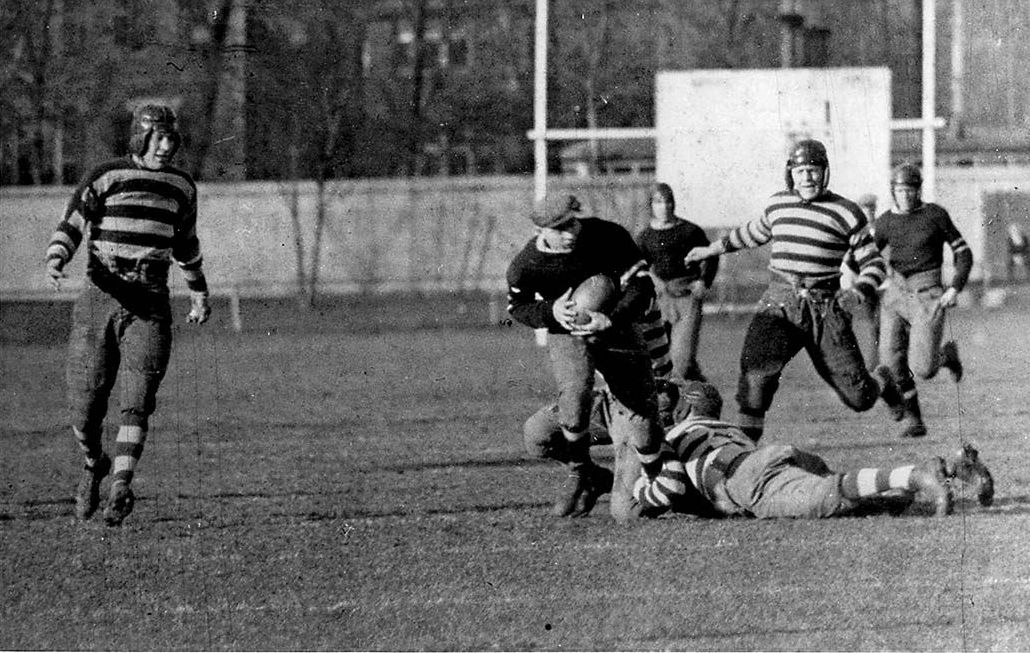 Toronto Argonauts (stripes) versus Ottawa Rough Riders (solids) at Varsity Stadium. The ball carrier is Harry Hutchingham for Ottawa. Toronto, Canada.